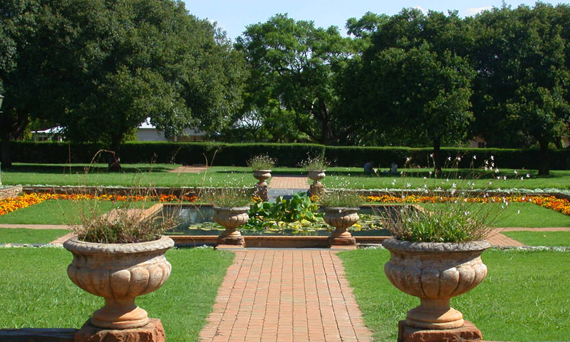 A sunken garden in Venning Park, between Pretorius and Schoeman Streets, Arcadia, Pretoria, South Africa